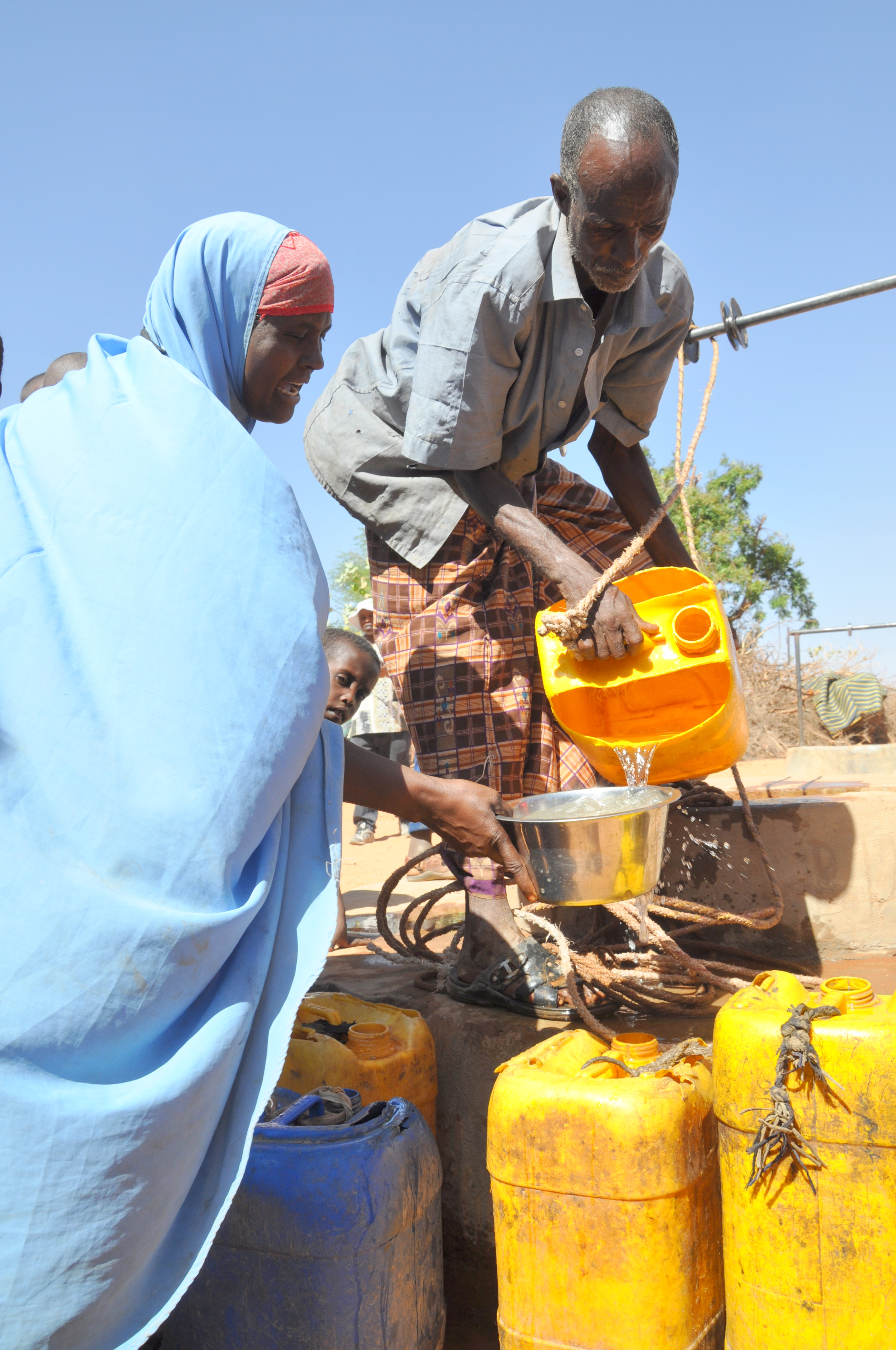 45-year-old Bashe Ahmed Bile collects water for his relatives from an Oxfam/Havyoco water pump. Qaryaale went 11 months without any rain, but unlike some of the other villages it is near a river bed – which although dry on the surface still has water in the ground and Oxfam and community wells are still functioning. However this has brought its own challenges, including an influx of people from other villages, using up the scarce pasture: “People here have lost half of their sheep and goats in the drought. Myself, I used to have 120 animals, but now I only have 45 left. “Before, when I took my animals to market I used to get $50 for a sheep or a goat, and up to $500 for a camel. Now the animals are so weak and in such bad condition that I cannot sell them for any money at all. I worry they will die but it’s just not possible to sell them – nobody will buy. “All I can do is try and keep them alive, so I spend all my money on maize and fodder. To feed the animals I have to buy one 50kgs sack of maize a day – it costs me $20 every day. “Every three days I go and collect water, which I give to my relatives and my livestock. So far the well is ok and providing us with water – it goes very deep. But I worry it will run out, and then what happens? 20 villages nearby have run out of water, so they all come here with their animals, their trucks and their jerry cans. About 300 people from other villages have moved here now. “We have water at least, but the animals are still dying because of the lack of fodder. They don’t have anything to eat and starve to death.”